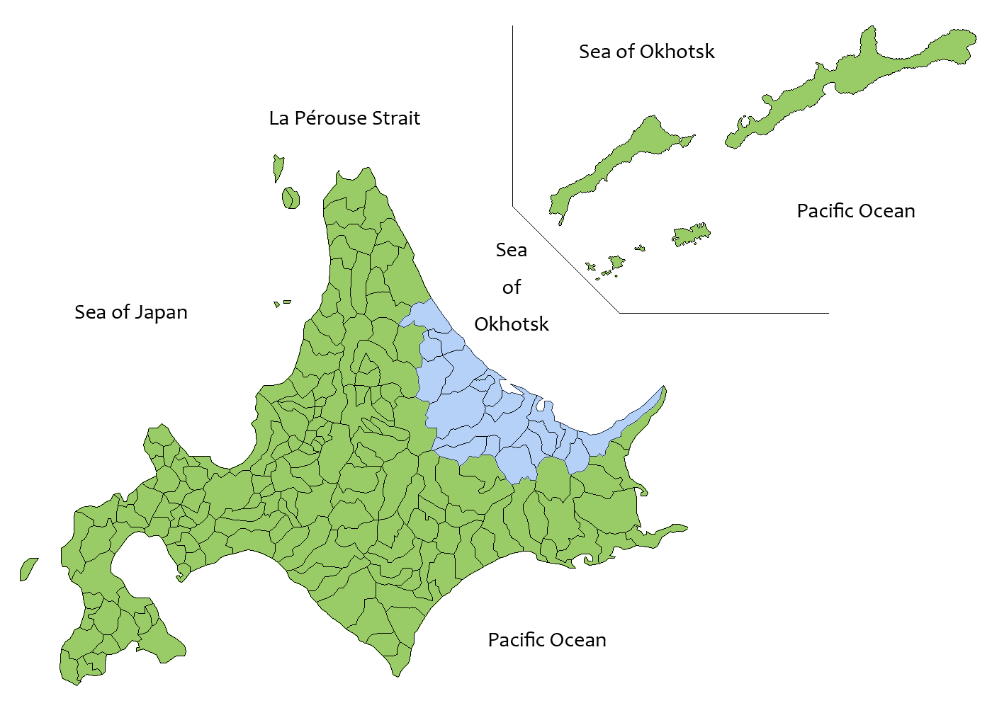 Map of Abashiri subprefecture in English